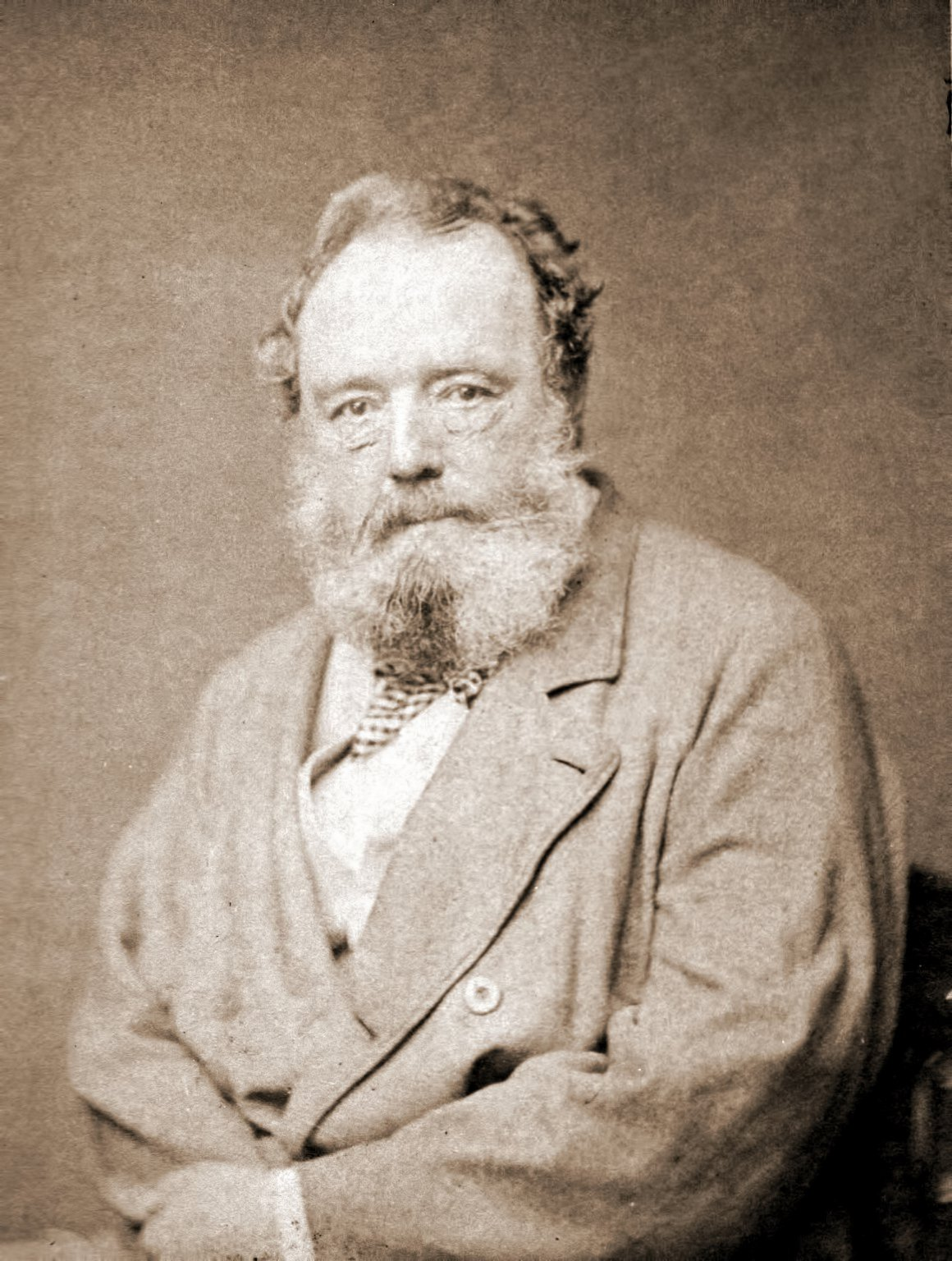 Edwin Lankester, British physician and naturalist